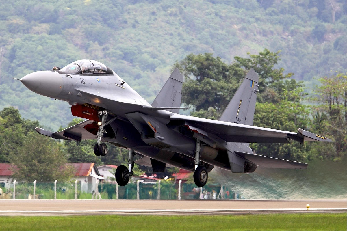 su30mkm takeoff at lima